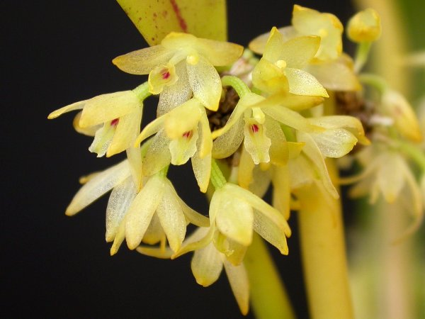 Octomeria alpina